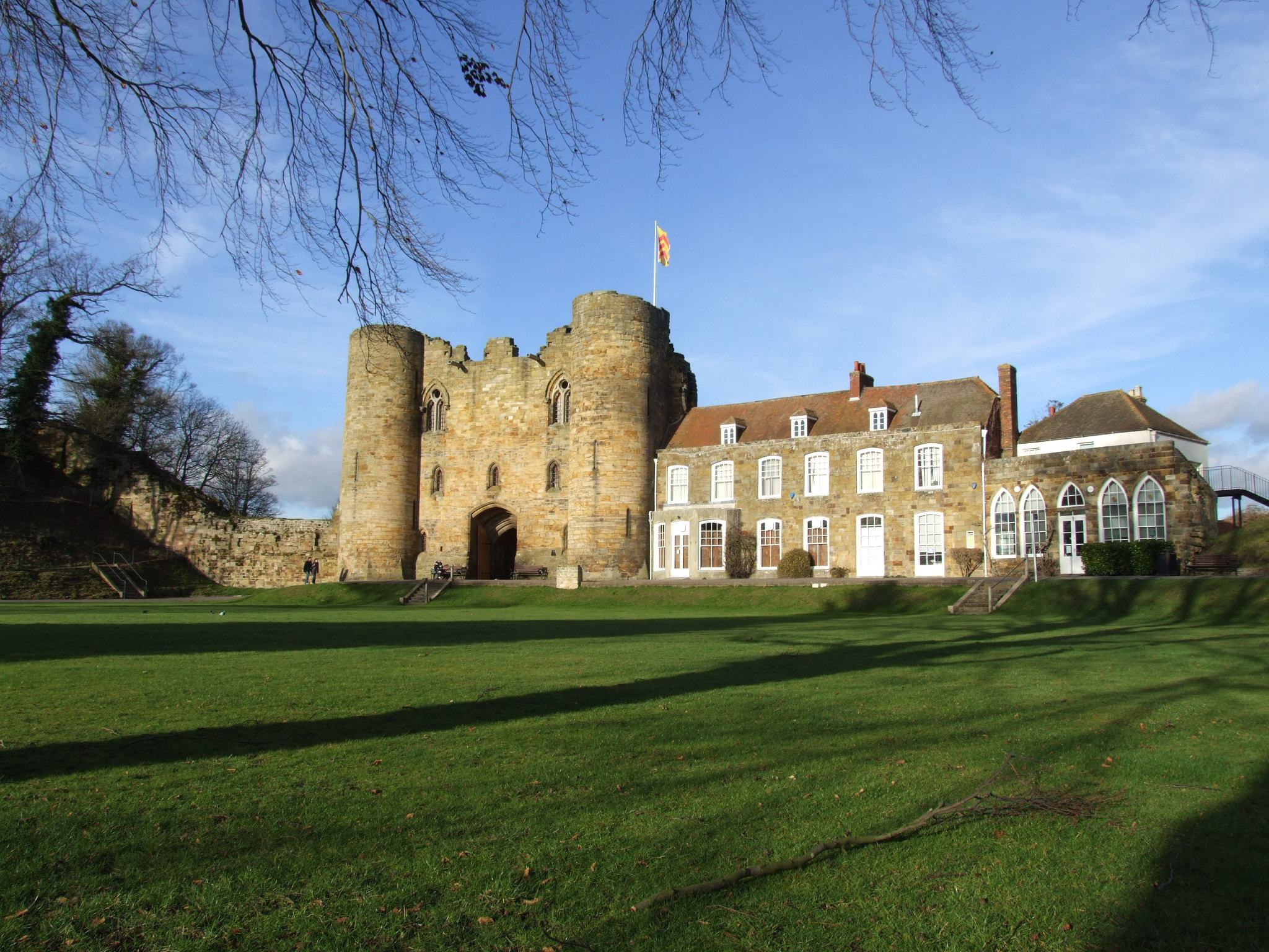 Tonbridge in Kent lies on the River Medway. The main channel passes under Big Bridge.Three channels have been culverted, the Botany Stream remains. Tonbridge is protected by Tonbridge Castle The gatehouse and mansion.